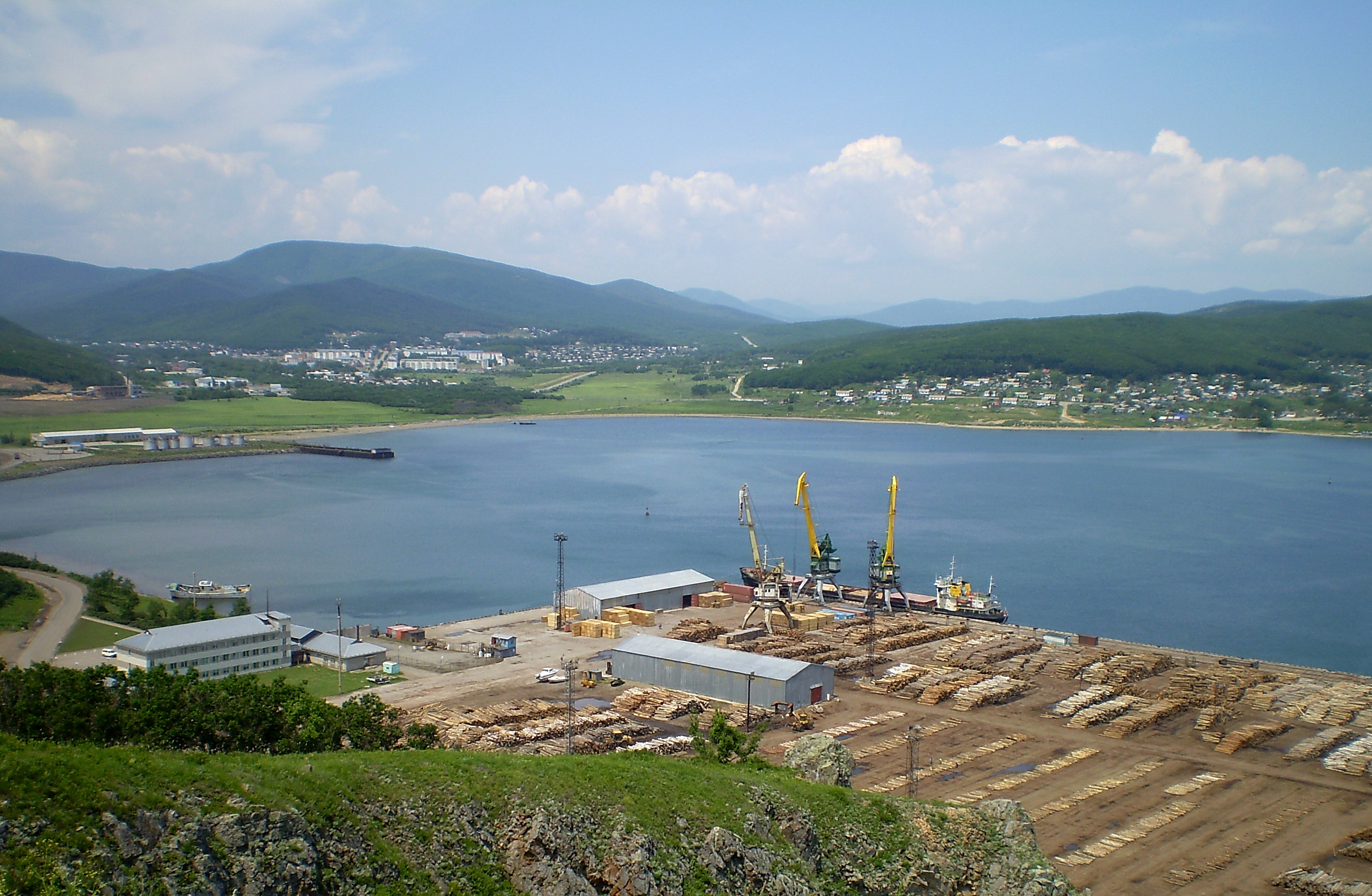 View of the Plastun settlement from the port in 2008.